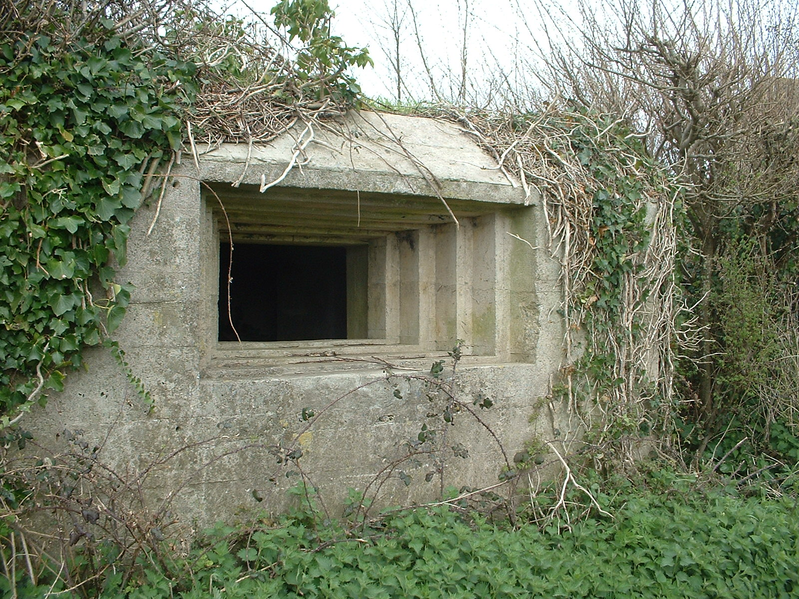 Pillbox embrasures, Large, on the Taunton Stop Line at Downs Farm near Donyatt, OS reference ST342139. One of a pair of pillboxes with large embrasures built into hedgerow. Part of a complex of fortifications. Vickers Medium Machine Gun emplacement with large, stepped, front embrasure and the blast wall which covers the entrance. Along the Taunton Stop Line there are many of these structures, sited in pairs. OS reference ST342139